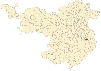 Ullastret